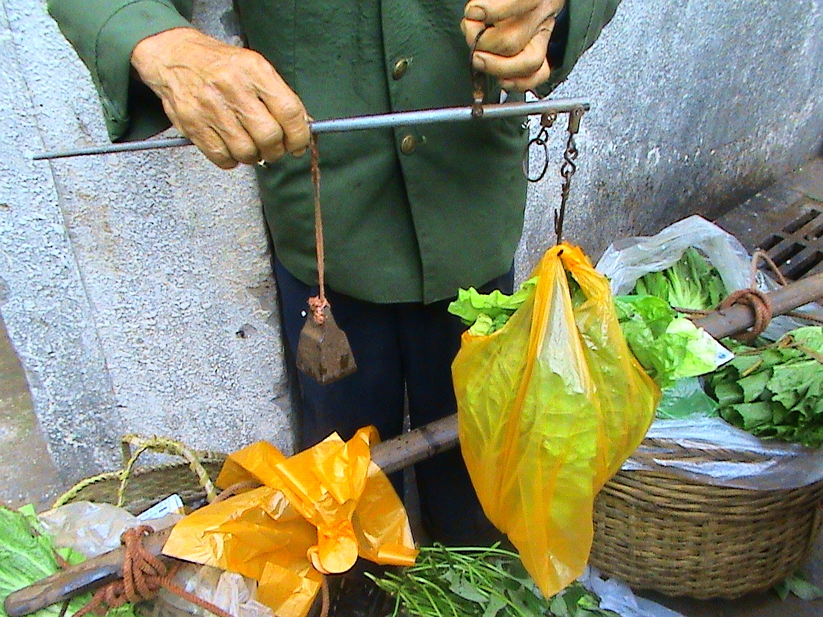 An aluminum, mass-produced balance scale sold and used throughout China. Note the larger ring beneath the user's right hand. The scale can be inverted, and held by this ring. This produces greater leverage, and is used for heavier loads. This scale is sold with an aluminum pan, but this is rarely used. The cost approximately 12 yuan ($2 USD) in 2011. Photo taken in Hainan Province, China.